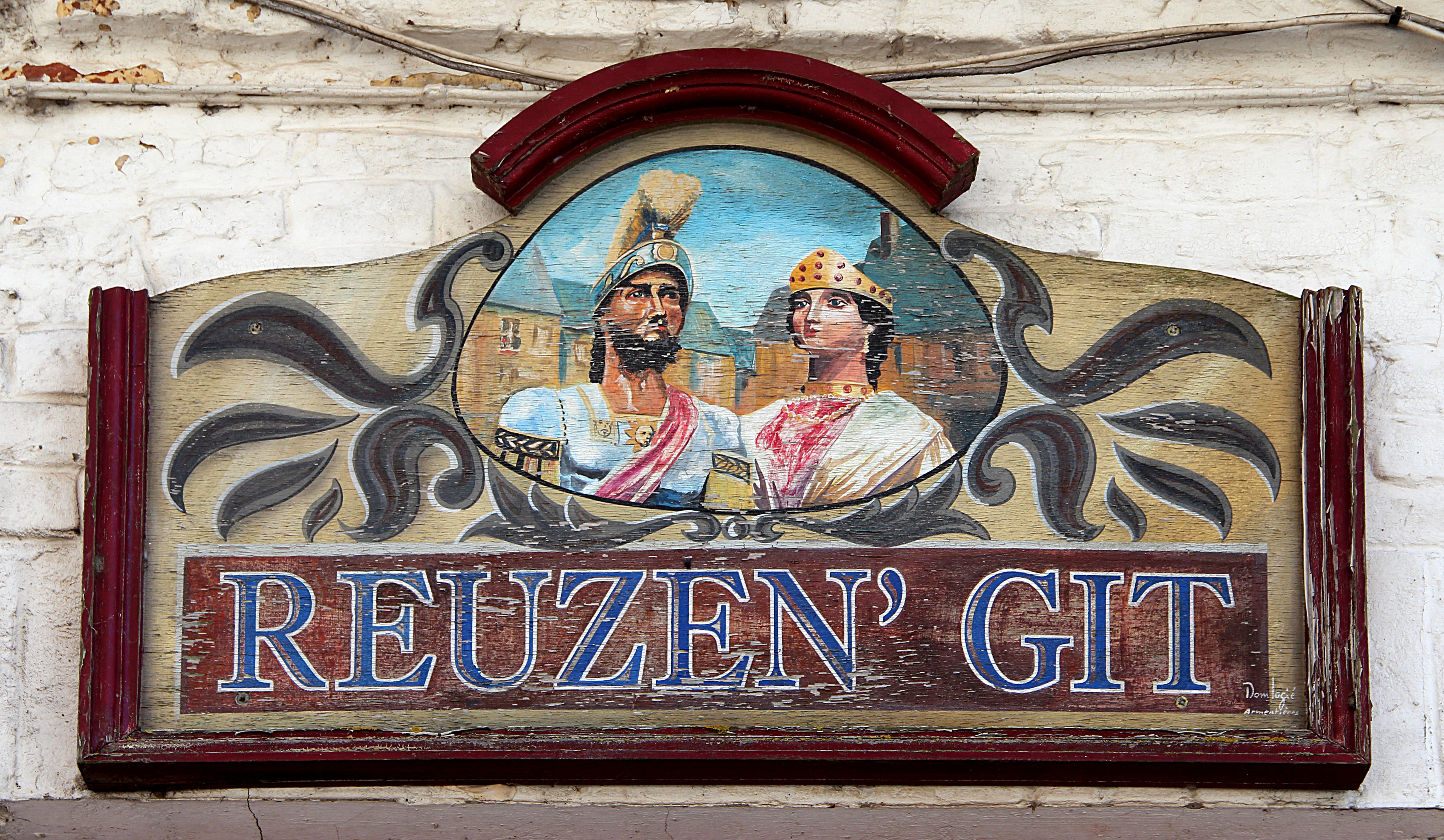 "Reuzen 'Git", painted wooden sign representing the legendary giants Reuze Papa and Reuze Maman adorning the transom of the door of the old house located at n ° 6 rue Notre-Dame in Cassel (Nord department, France).